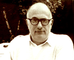 Portrait of the artist. Vincente Segrelles